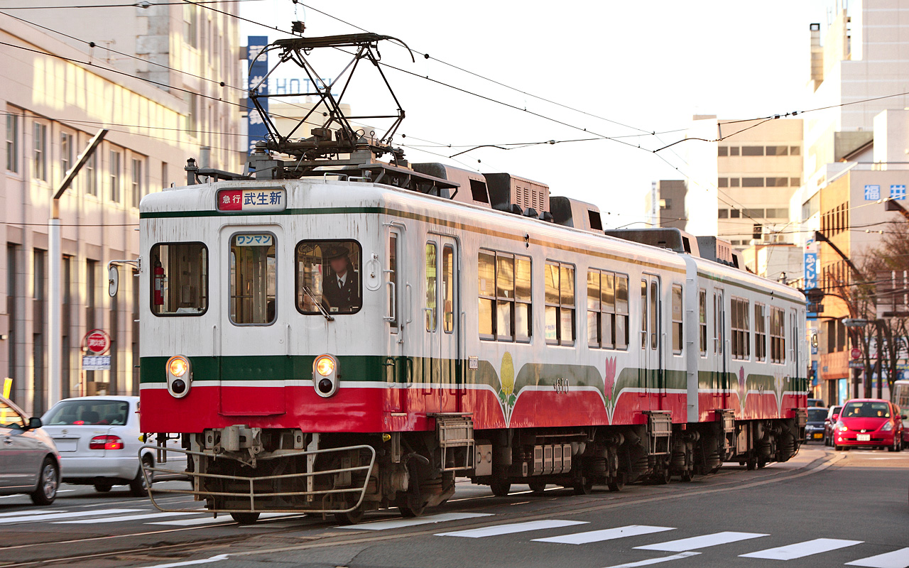 Fukui Railway Type 610